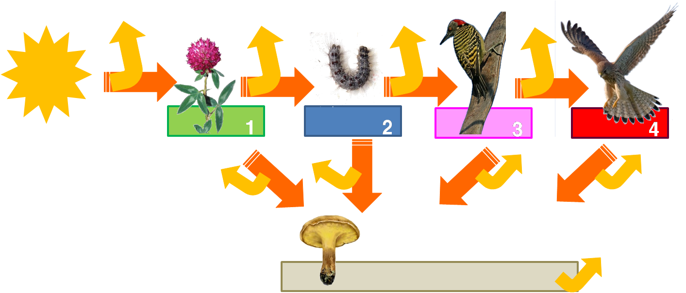 Illustration of Trophic dynamics on Food chain